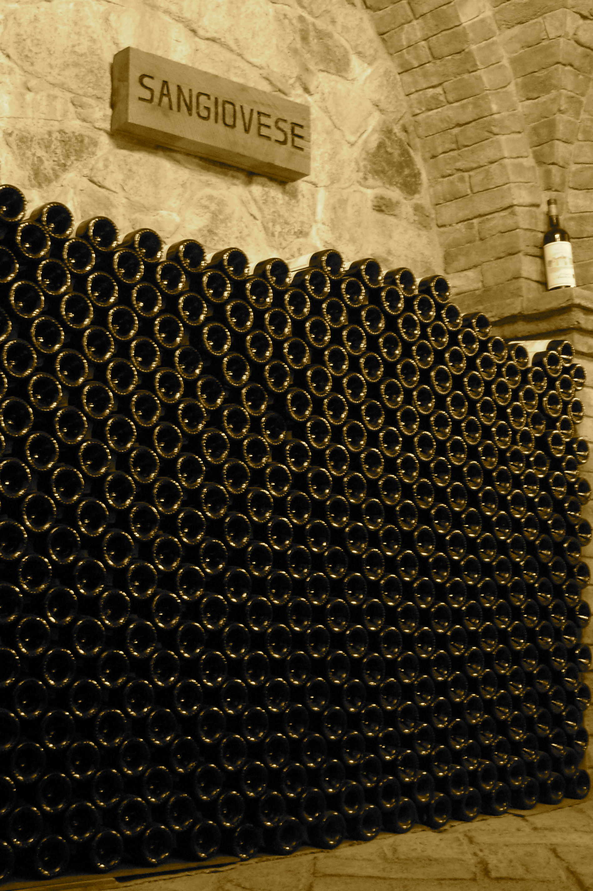 sangiovese bottles in the tasting room at castello di amorosa